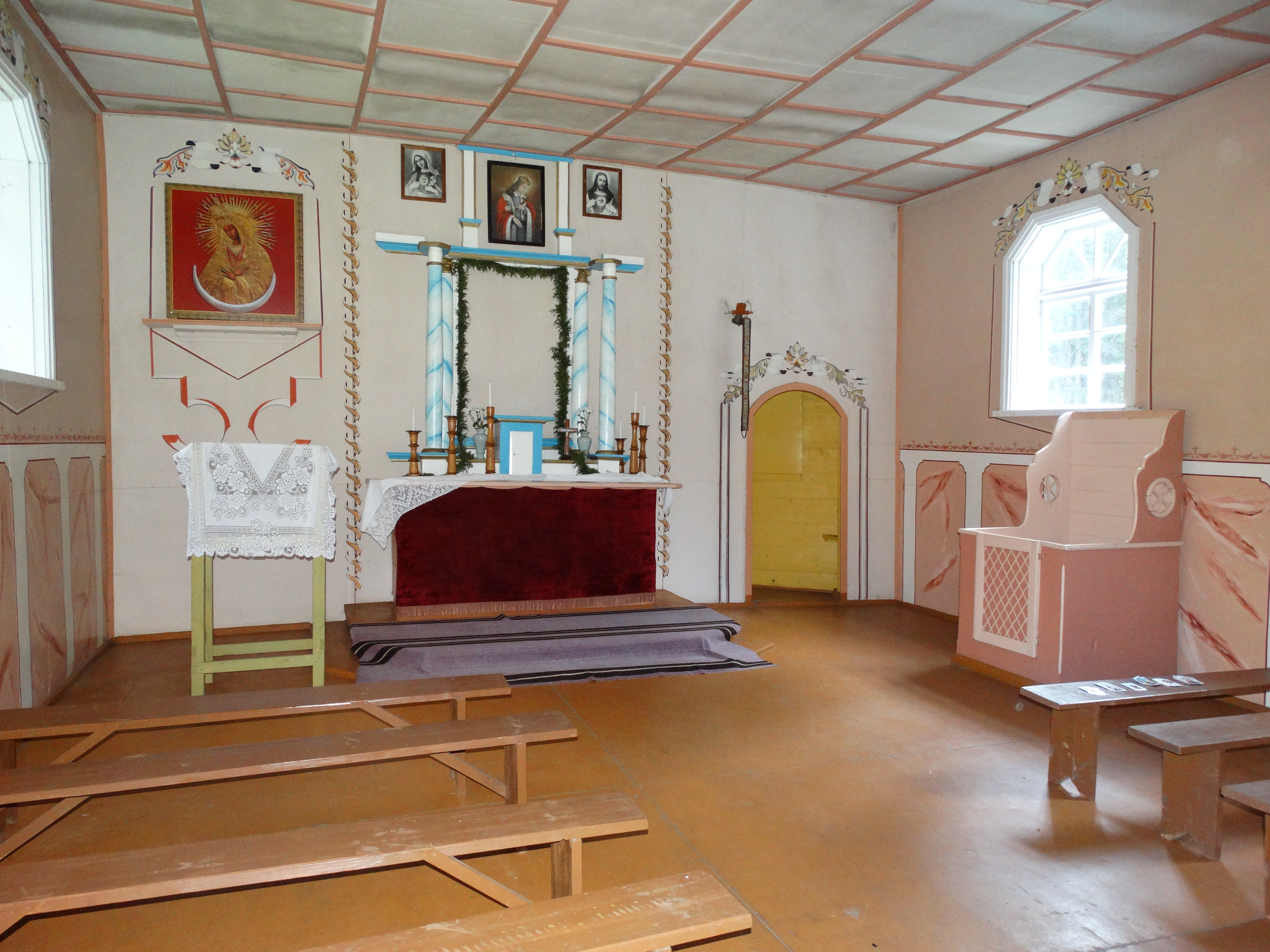 Chapel in Porijai, Pasvalys district, Lithuania